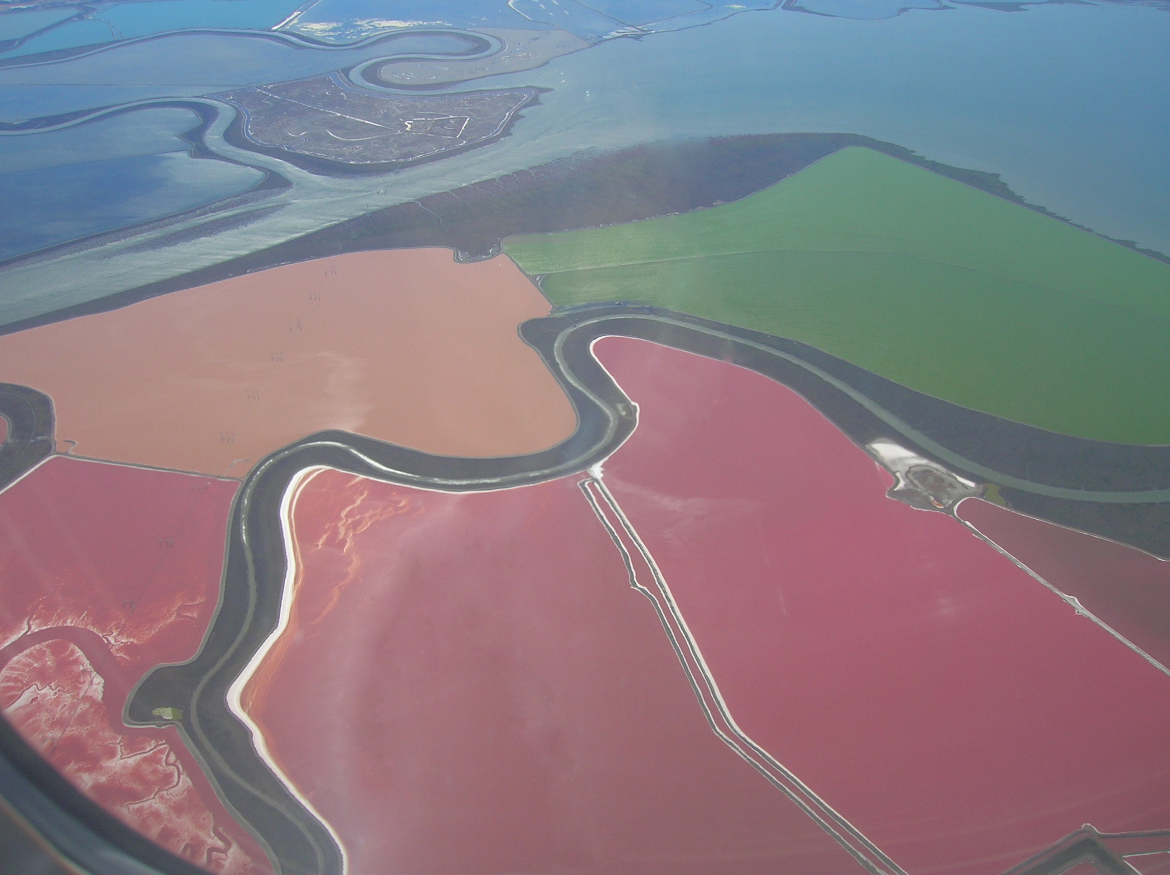 San Francisco Bay Salt Ponds, picture taken at a landing